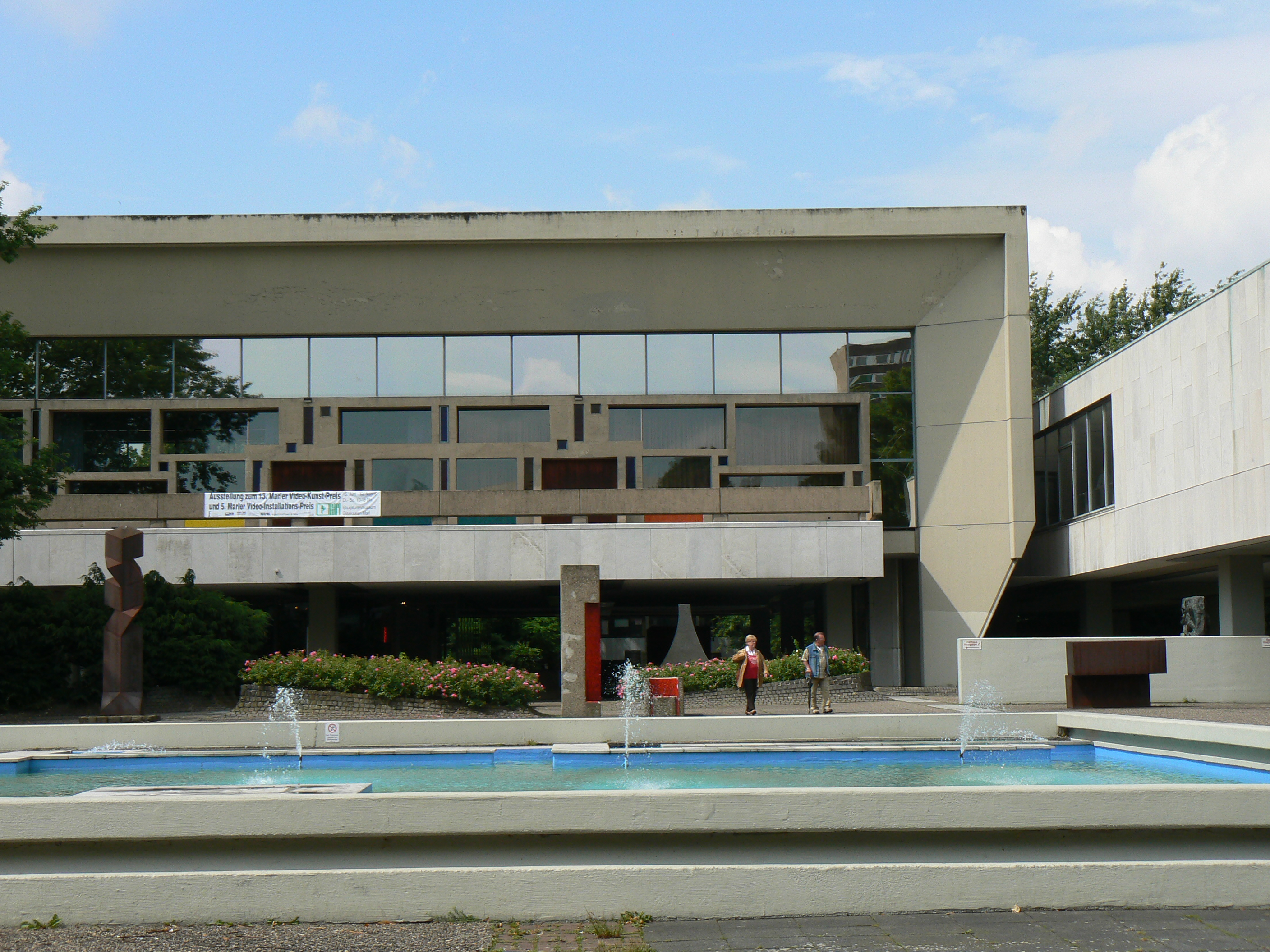 Museum: Skulpturenmuseum Glaskasten in Marl/Germany